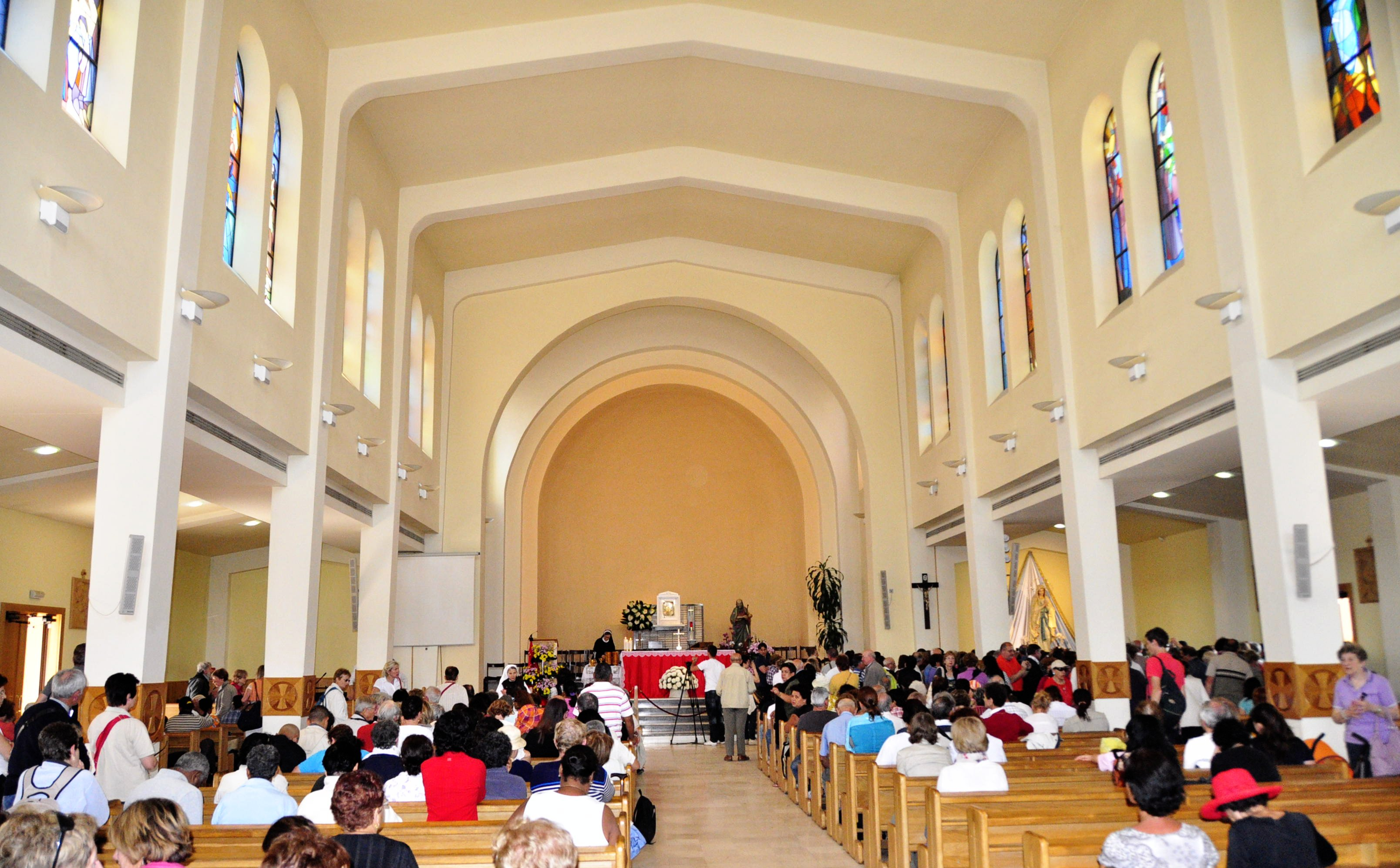 medjugorje bosnia herzegovina apparitions virgin mary roman catholic pension pansion porta travel creative commons cc gnuckx panoramio flickr map geotag wiki wikipedia